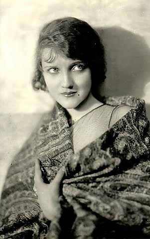 Dorothy Dickson